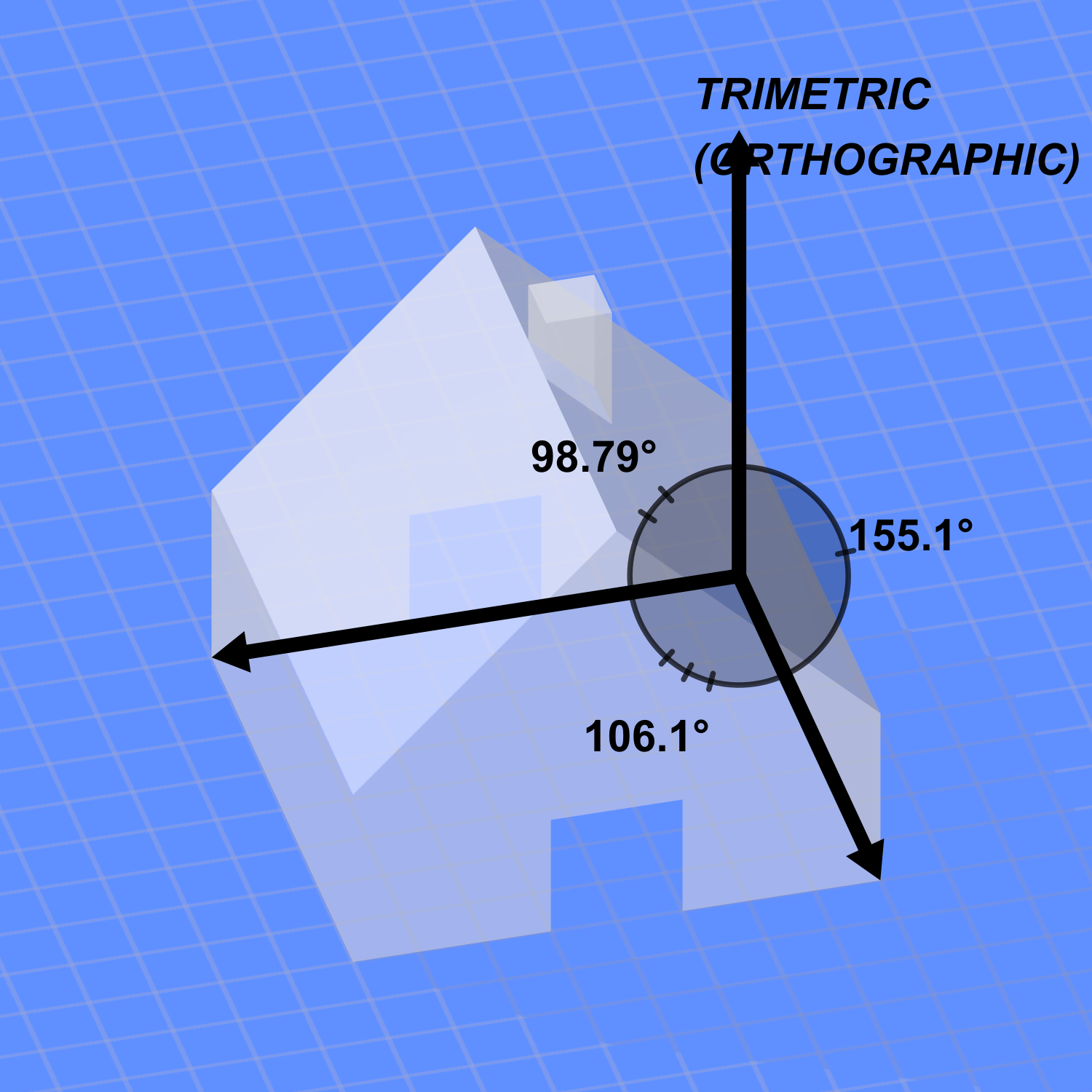 Trimetric projection.